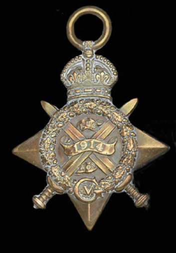 Mons Star Medal 1914